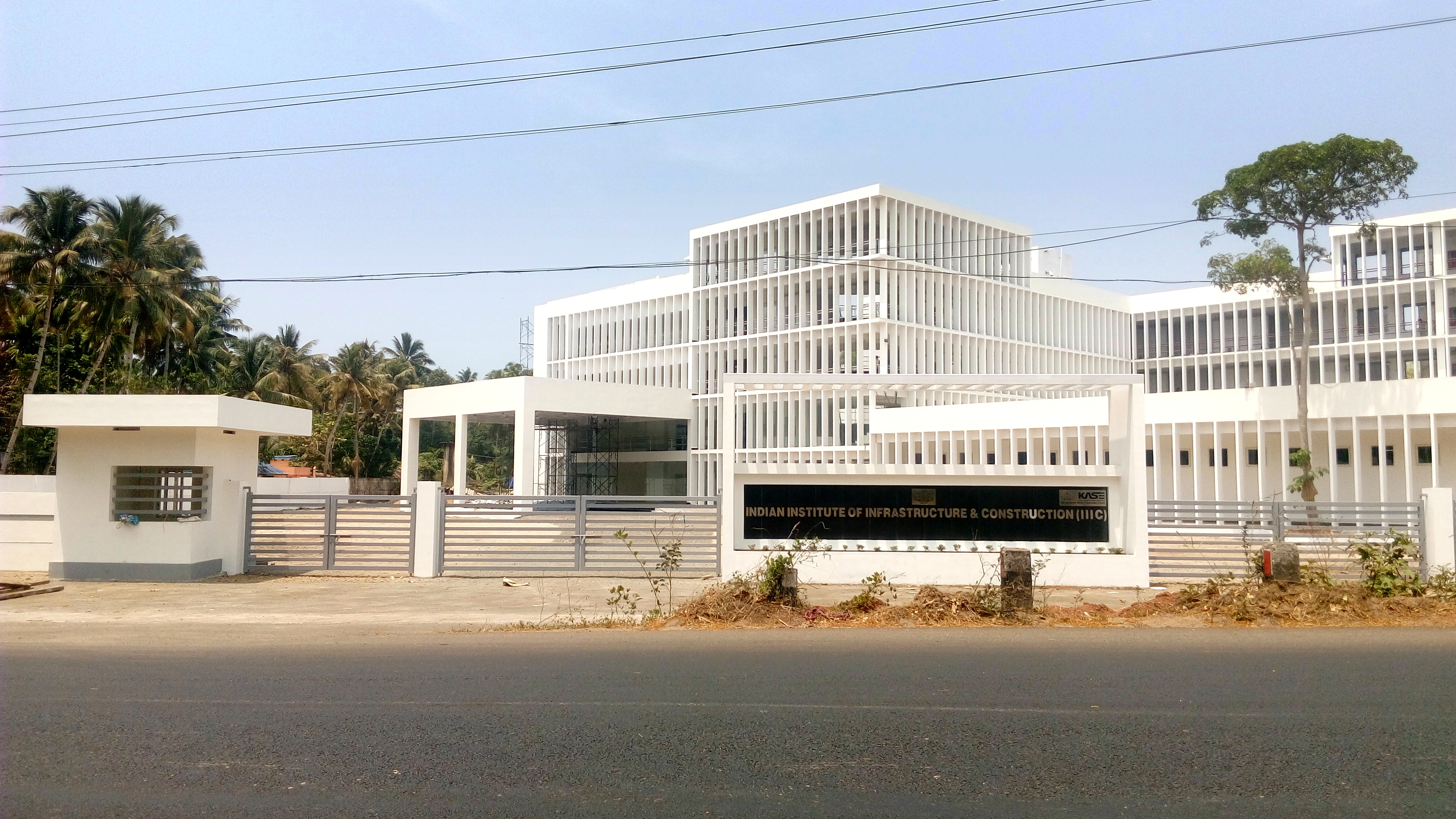 Indian Institute of Infrastructure and Construction-Kollam is a premier educational institute under construction at Chavara in Kollam, India